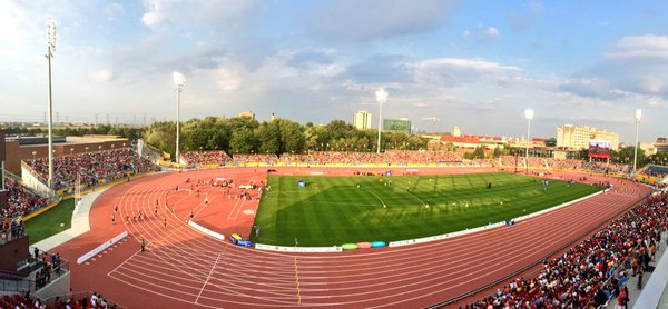 The athletics venue of the 2015 Pan American Games in Toronto, Canada.